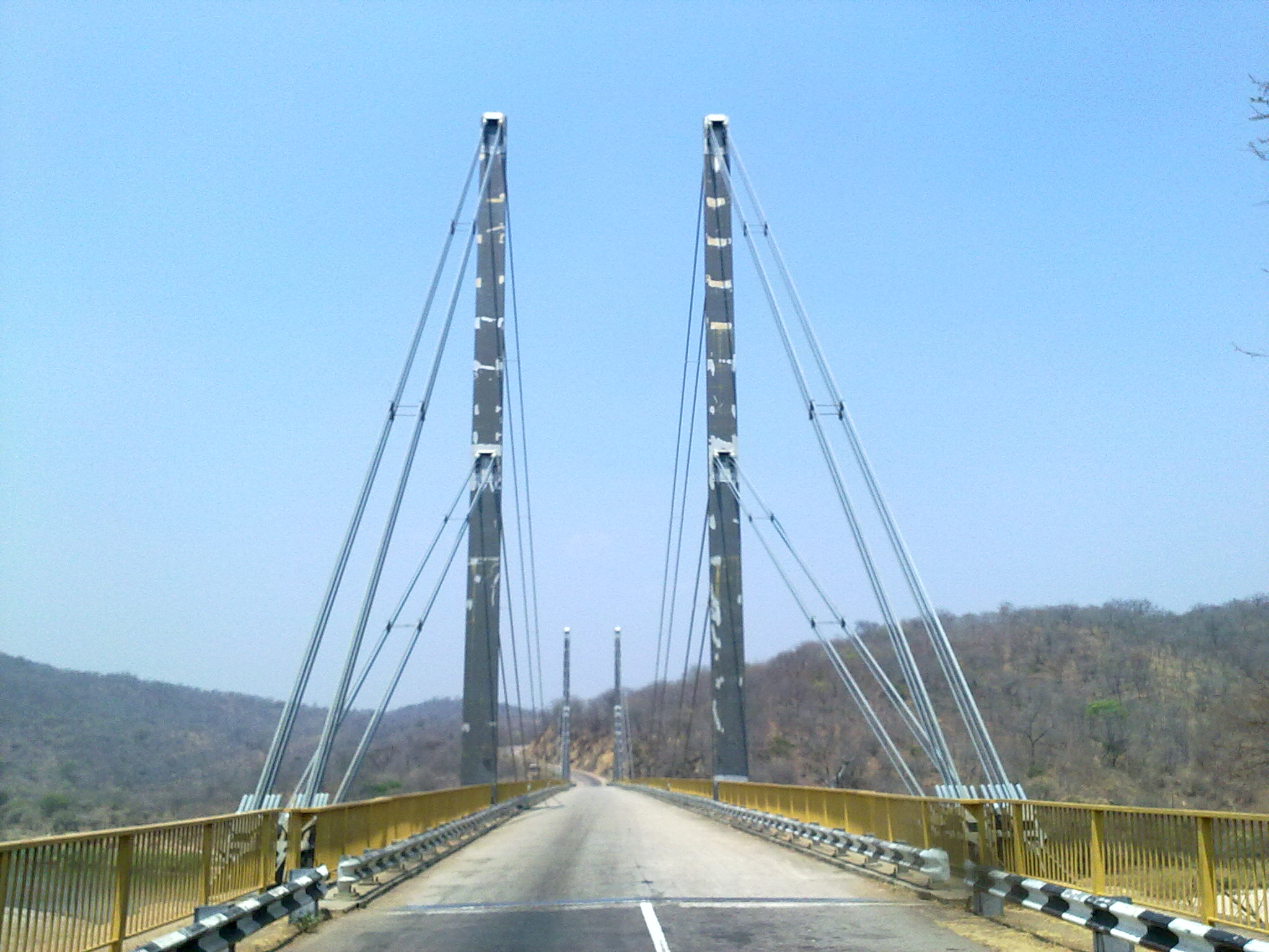 picture by Rahul Ingle oct 2010 Suspension bridge across the Luangwa river on the way from Lusaka to Chipata